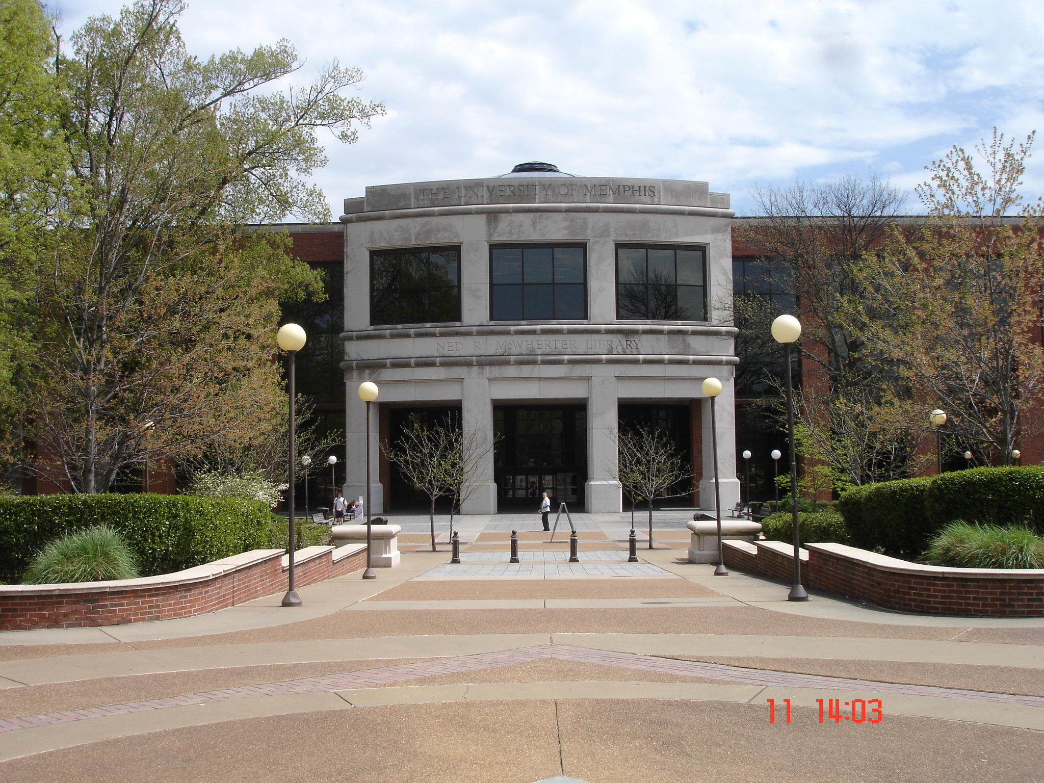 u of m library